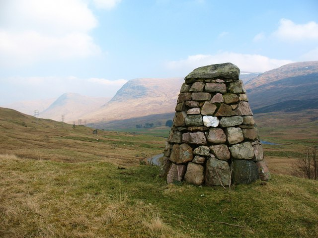 Memorial cairn, Glen Lyon A cairn erected in memory of Robert Campbell, a native of the glen and a notable explorer of the arctic regions of Canada. He worked for the Hudson's Bay Company and lived from 1808 to 1894.